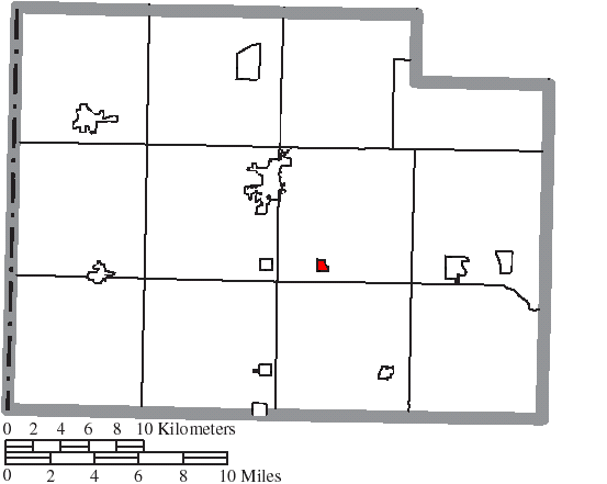 Map of the municipal and township boundaries of Paulding County, Ohio, United States, as of the 2000 census, with the location of the village of Broughton highlighted. Township borders are shown only in unincorporated areas in order to differentiate incorporated and unincorporated areas more clearly.